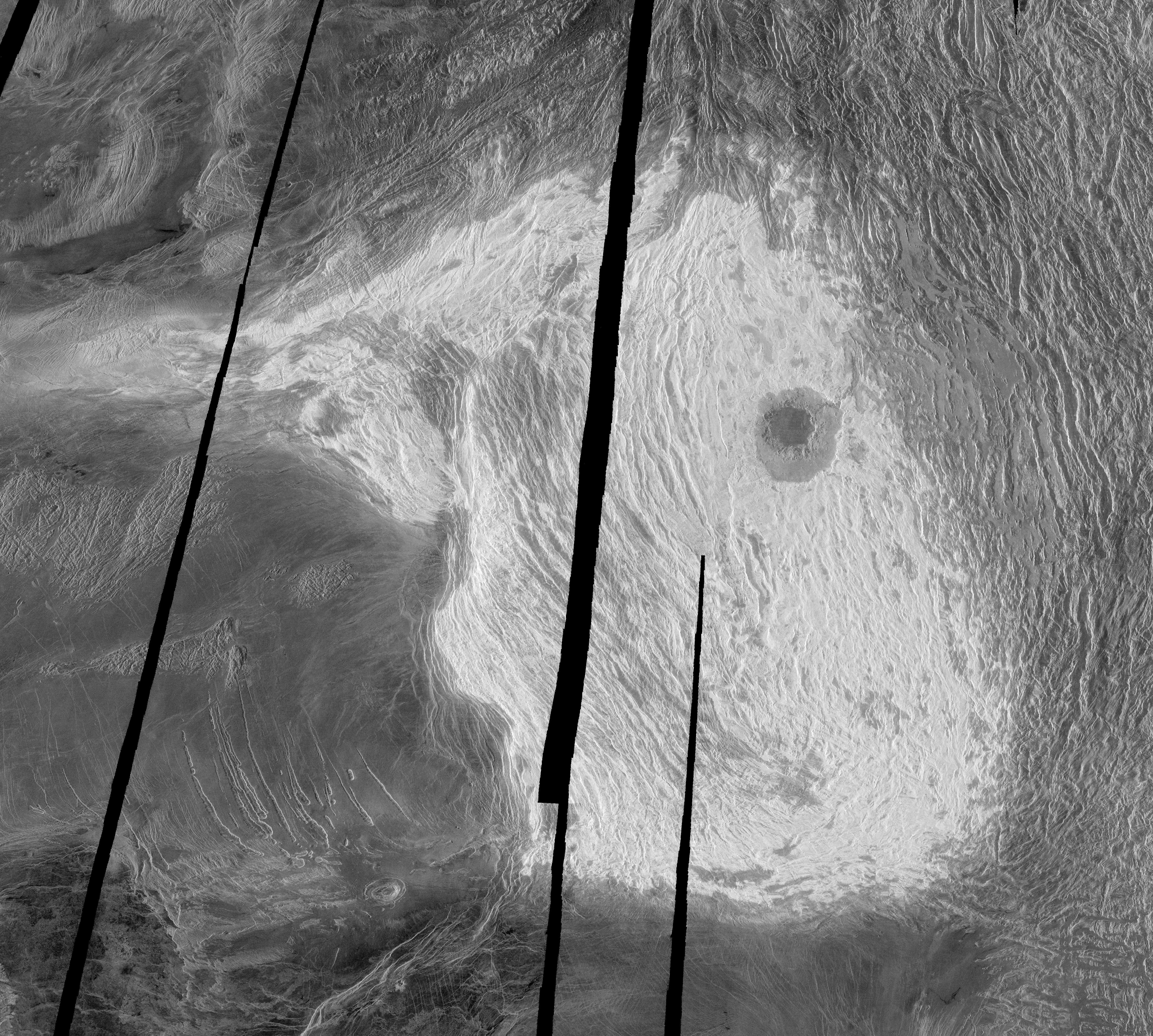 Venus - Maxwell Montes and Cleopatra Crater Original Caption Released with Image: This Magellan full-resolution image shows Maxwell Montes, and is centered at 65 degrees north latitude and 6 degrees east longitude. Maxwell is the highest mountain on Venus, rising almost 11 kilometers (6.8 miles) above mean planetary radius. The western slopes (on the left) are very steep, whereas the eastern slopes descend gradually into Fortuna Tessera. The broad ridges and valleys making up Maxwell and Fortuna suggest that the topography resulted from compression. Most of Maxwell Montes has a very bright radar return; such bright returns are common on Venus at high altitudes. This phenomenon is thought to result from the presence of a radar reflective mineral such as pyrite. Interestingly, the highest area on Maxwell is less bright than the surrounding slopes, suggesting that the phenomenon is limited to a particular elevation range. The pressure, temperature, and chemistry of the atmosphere vary with altitude; the material responsible for the bright return probably is only stable in a particular range of atmospheric conditions and therefore a particular elevation range. The prominent circular feature in eastern Maxwell is Cleopatra. Cleopatra is a double-ring impact basin about 100 kilometers (62 miles) in diameter and 2.5 kilometers (1.5 miles) deep. A steep-walled, winding channel a few kilometers wide breaks through the rough terrain surrounding the crater rim. A large amount of lava originating in Cleopatra flowed through this channel and filled valleys in Fortuna Tessera. Cleopatra is superimposed on the structures of Maxwell Montes and appears to be undeformed, indicating that Cleopatra is relatively young.